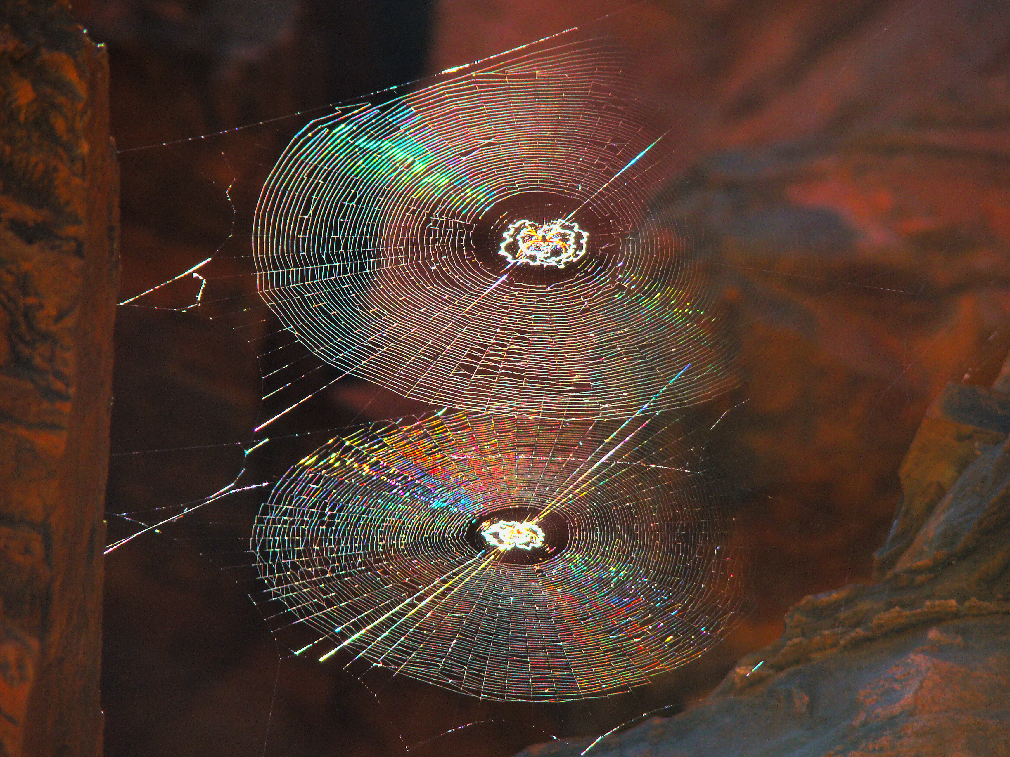 Spiral orb webs showing some colours in the sunlight in a gorge in Karijini National Park, Western Australia, Australia.